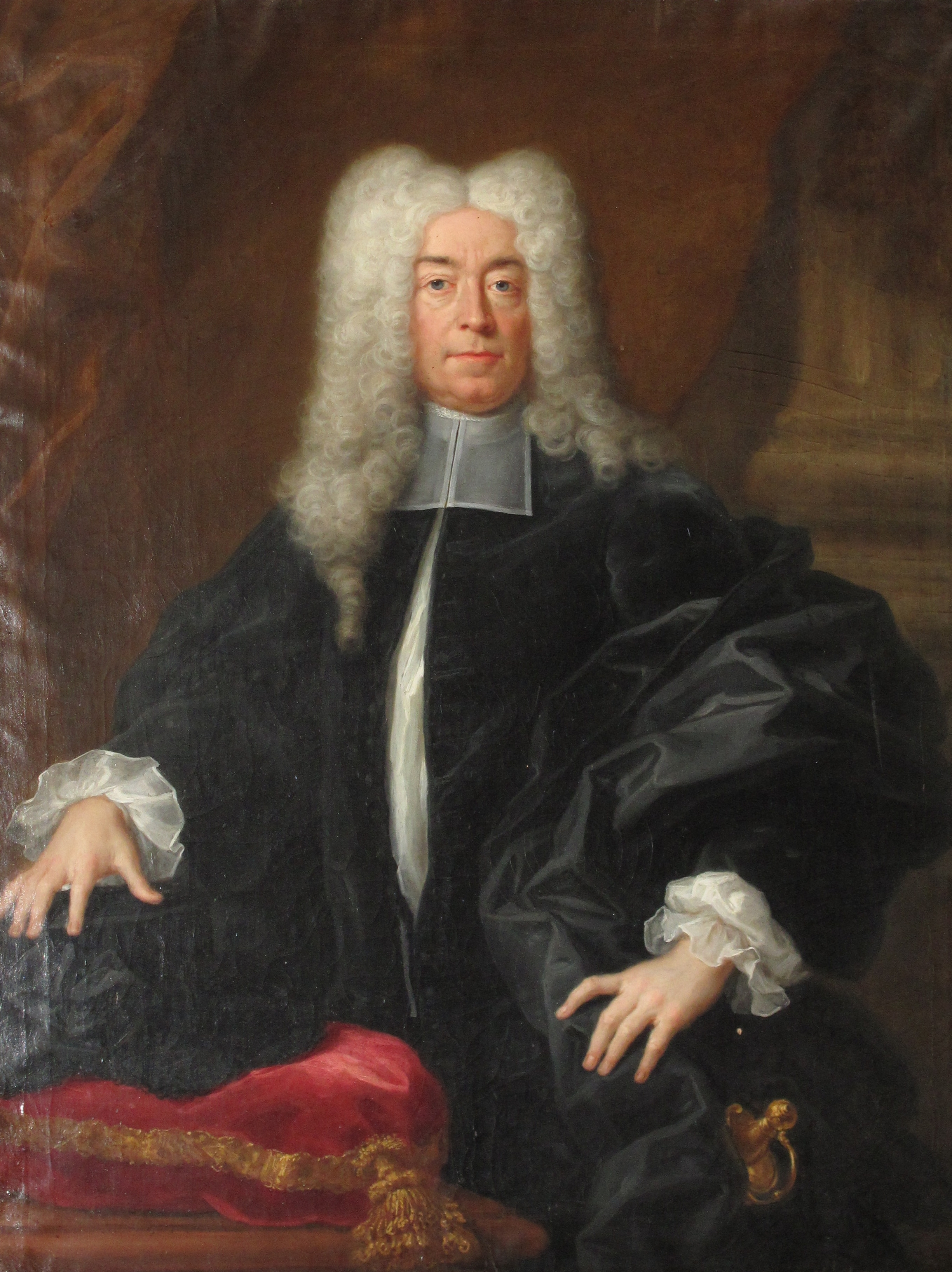 Portrait of Johann Frisching (1668–1726)